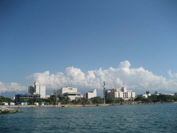 Image of city of Santa Marta, Colombia